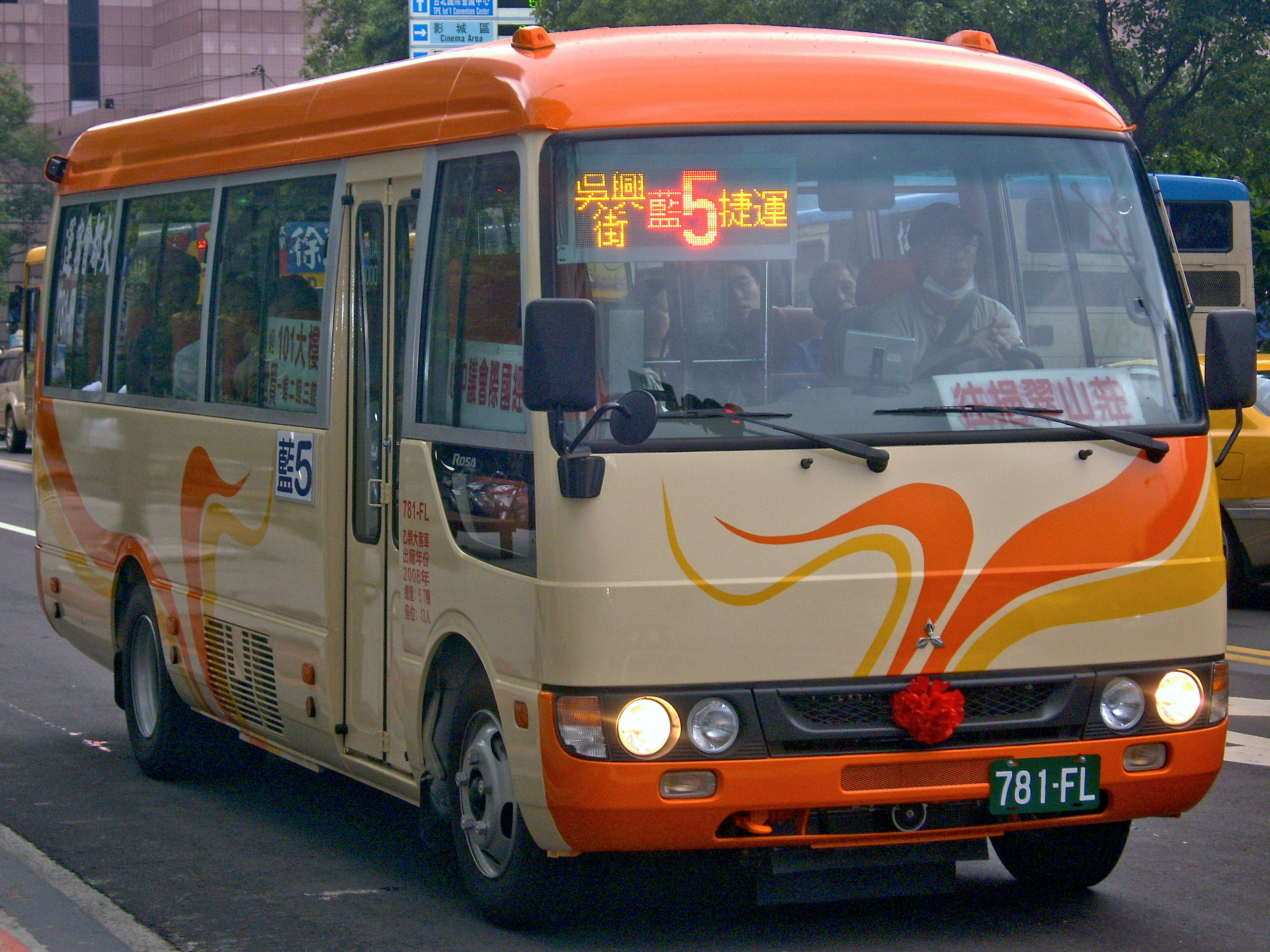 Metropolitan Transport Corporation - BL5 route.